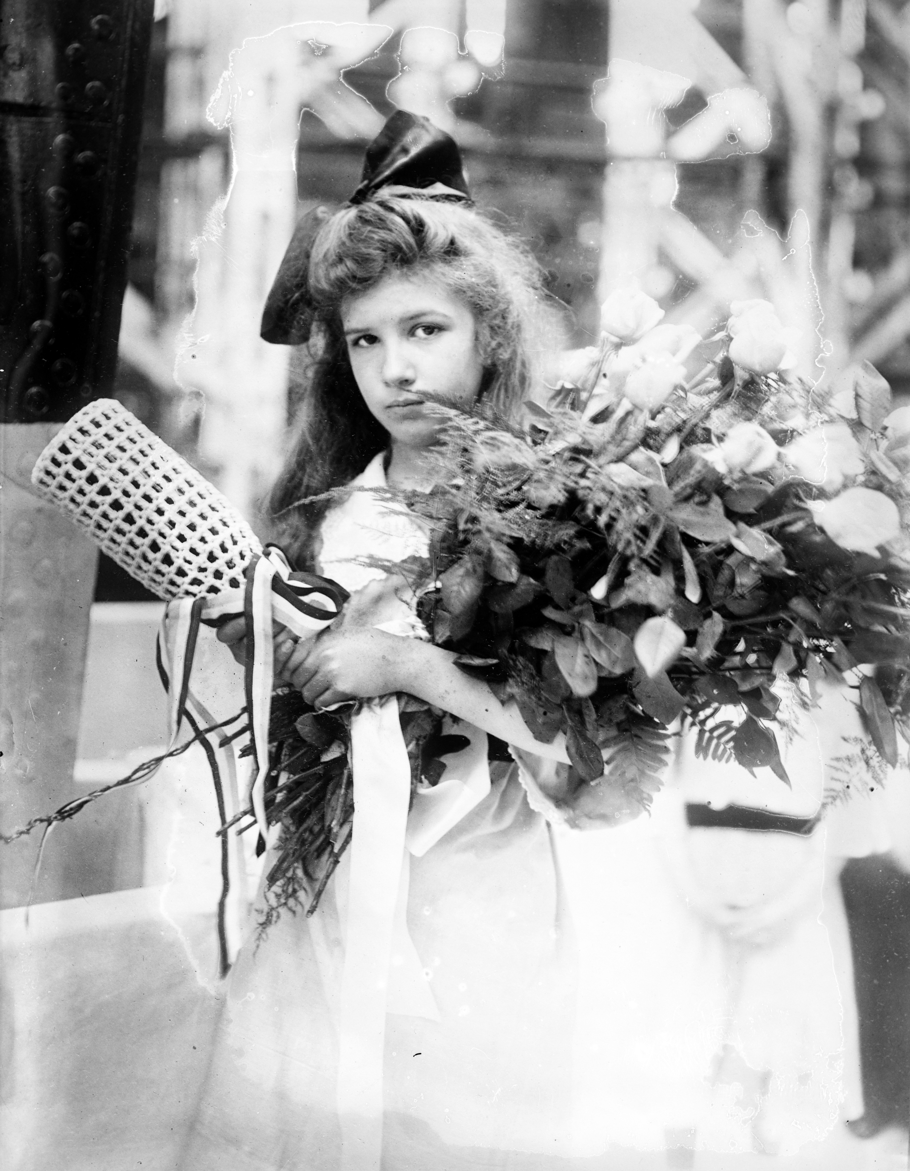 Evelyn Wainwright Turpin, the granddaughter of U.S. Navy Rear Admiral Richard Wainwright (Spanish–American War naval officer) the sponsor of the launch of American destroyer USS Wainwright (DD-62) on 12 June 1915 at Camden, New Jersey USS Wainwright (DD-62) was named in honor of: Richard Wainwright (naval officer, Civil War), Miss Wainwright's great-grandfather Jonathan Wainwright (naval officer), first cousin, three times removed of Miss Wainwright Jonathan Wainwright, Jr., second cousin, twice removed of Miss Wainwright